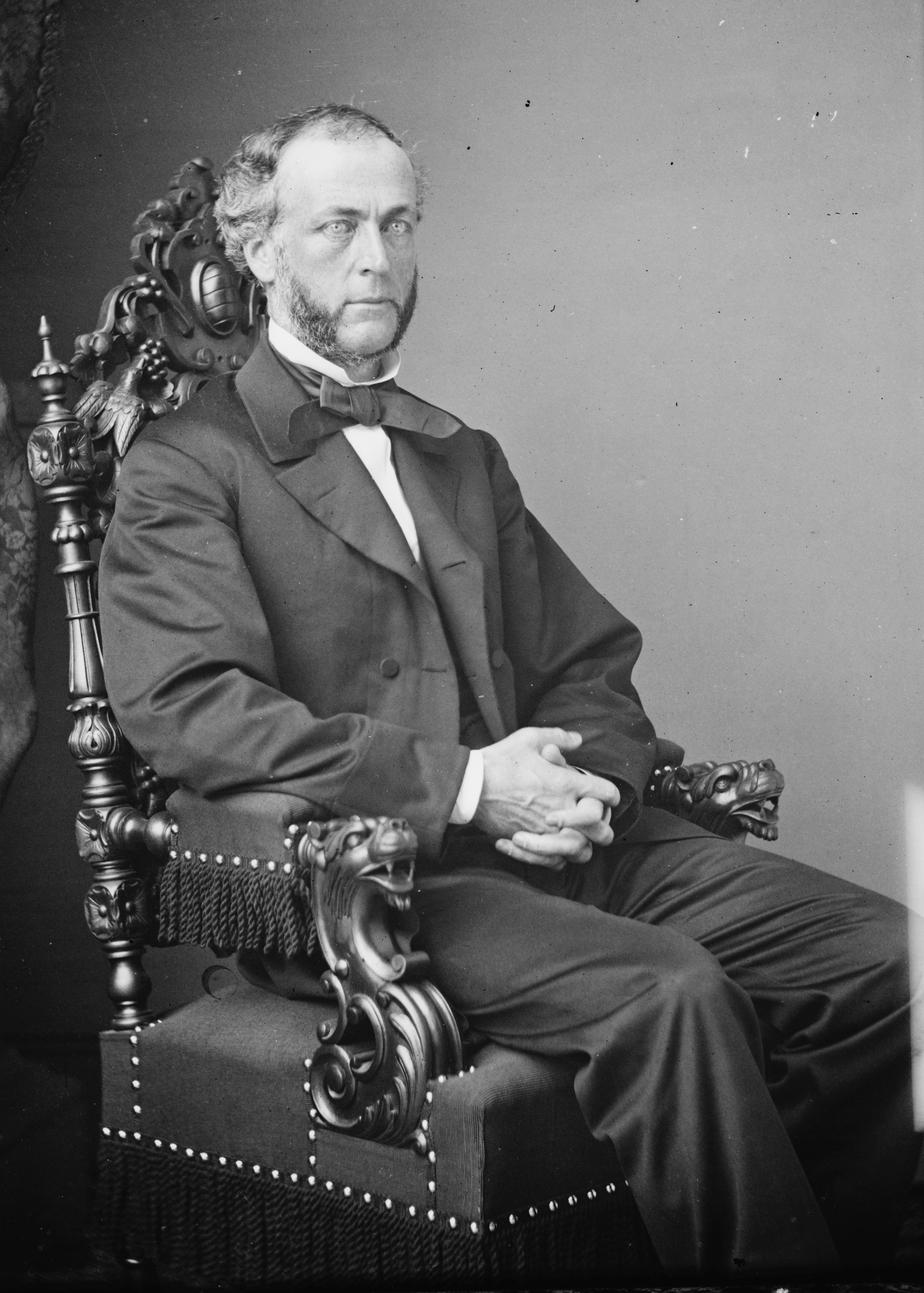 Frederick A. Conkling. Library of Congress description: "Hon. Frederick Augustus Conkling of N.Y."